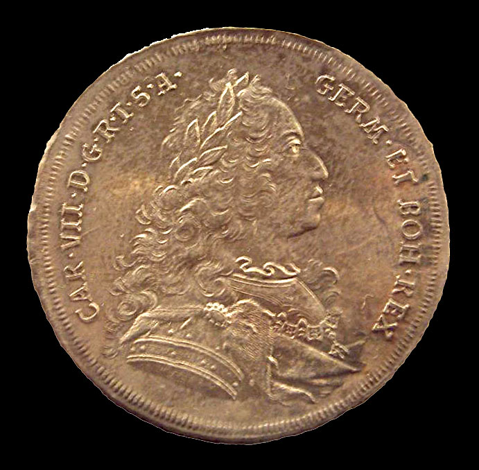 German Taler Coin, 1743, showing Emperor Charles VII (Karl Albrecht of Bavaria)